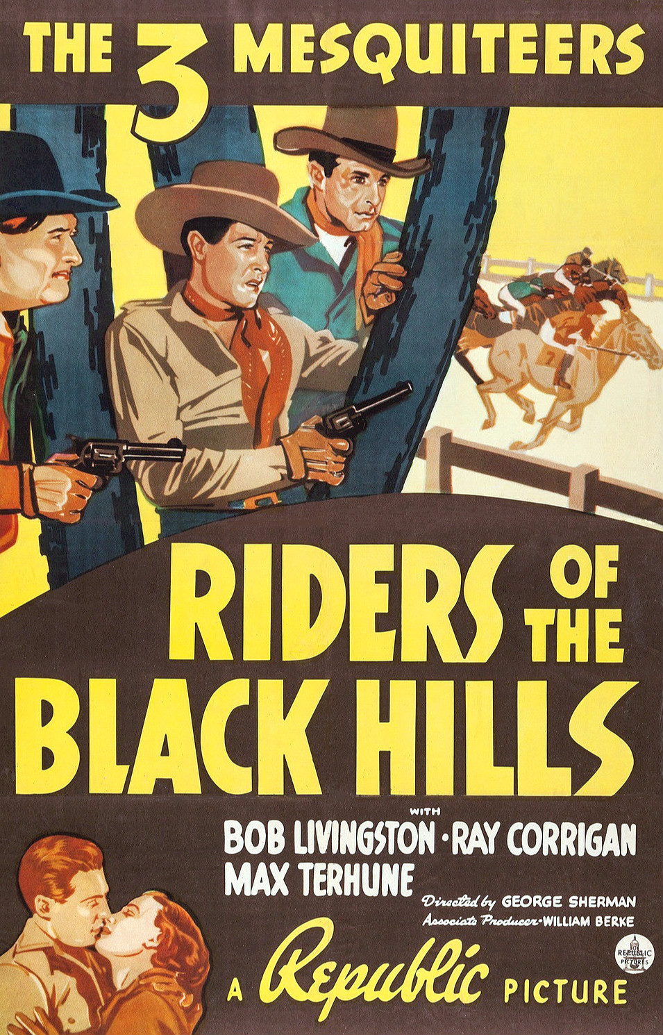 Poster from the 1938 film Riders of the Black Hills.